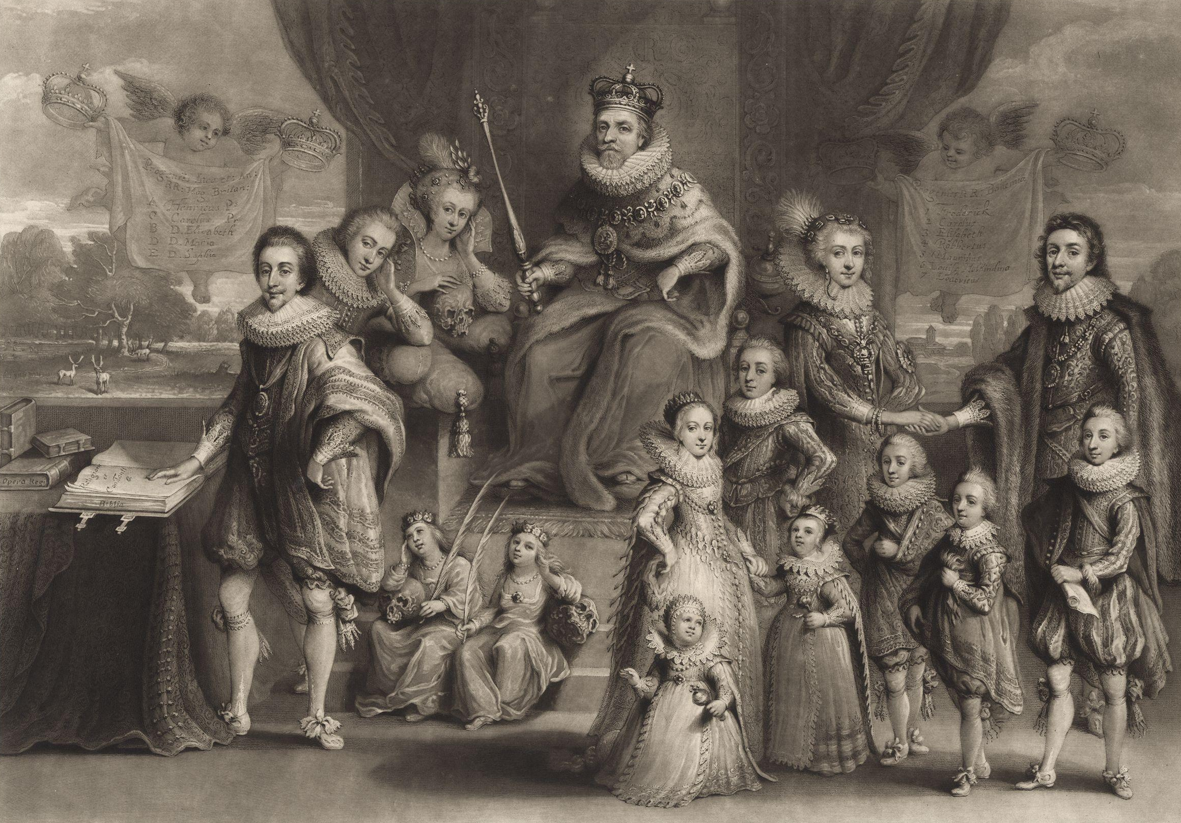 James I and his royal progeny, by Charles Turner (1773-1857), after Willem van de Passe (died 1642), published 1814.